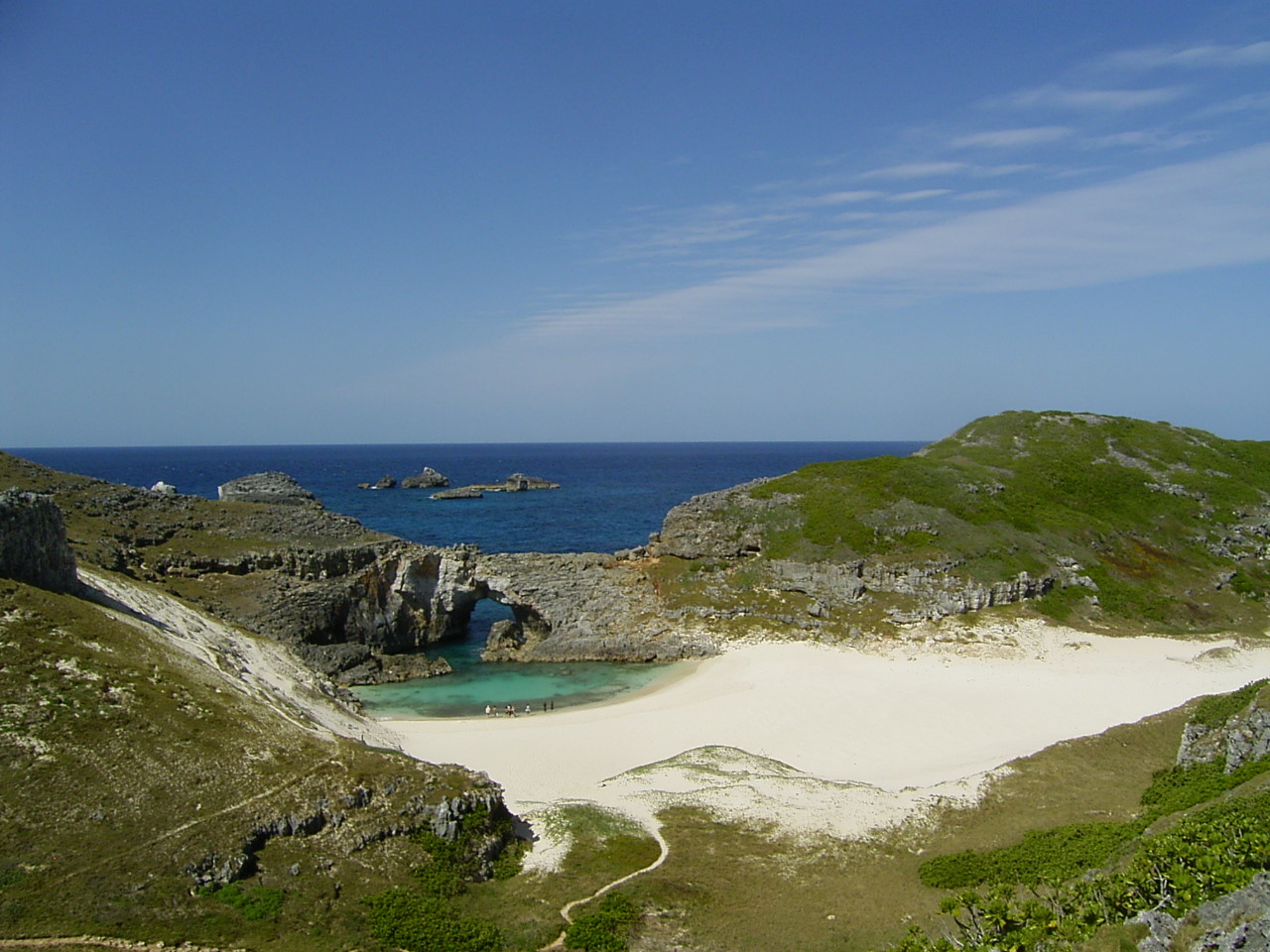 Minamijima Ogasawara Tokyo Japan